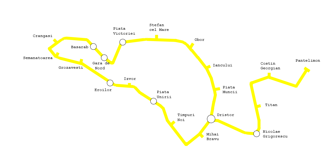 A map of the M1 line of the Bucharest Metro